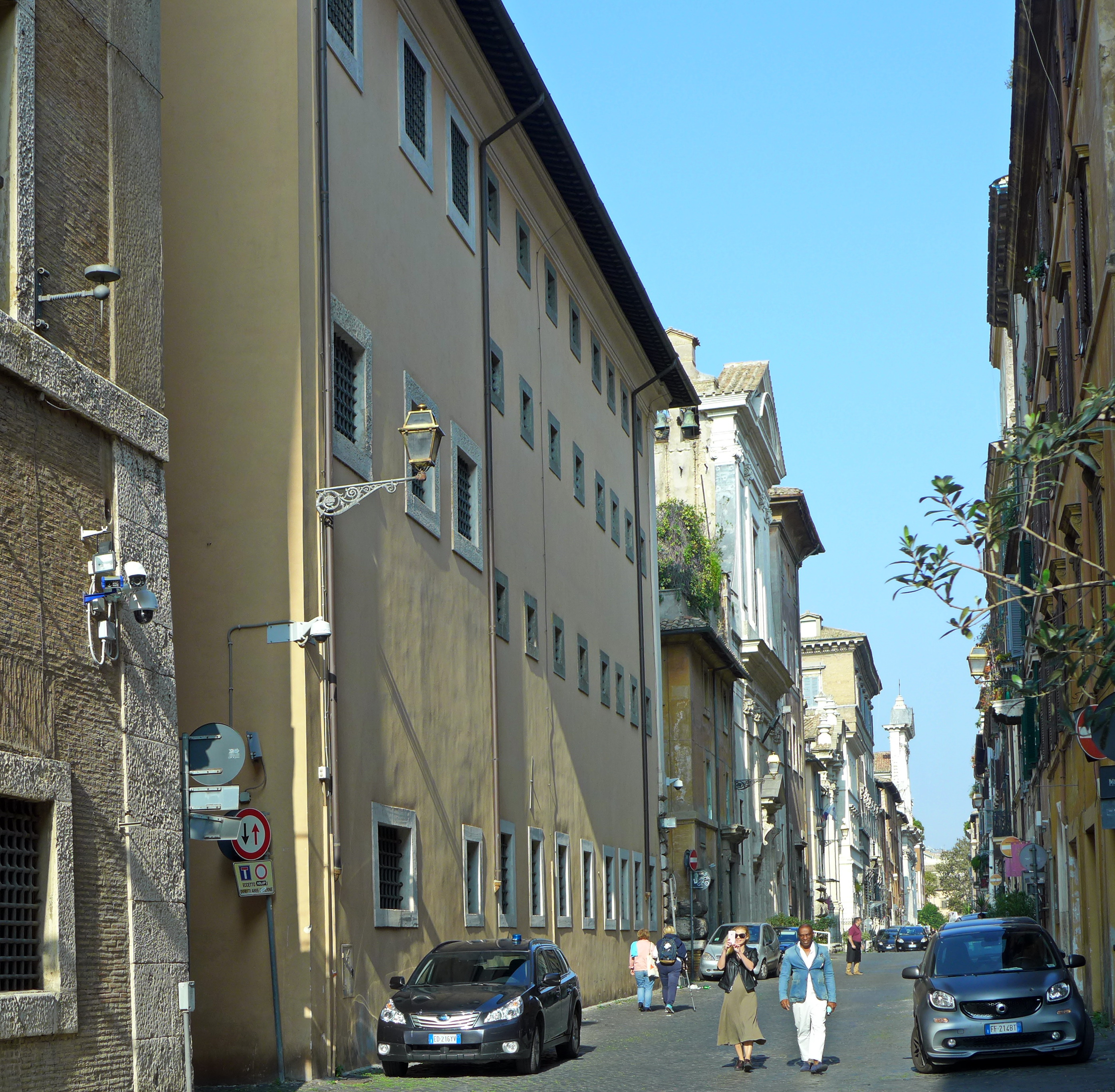 Via Giulia (Rome) Carceri Nuove; Museo Archeologico